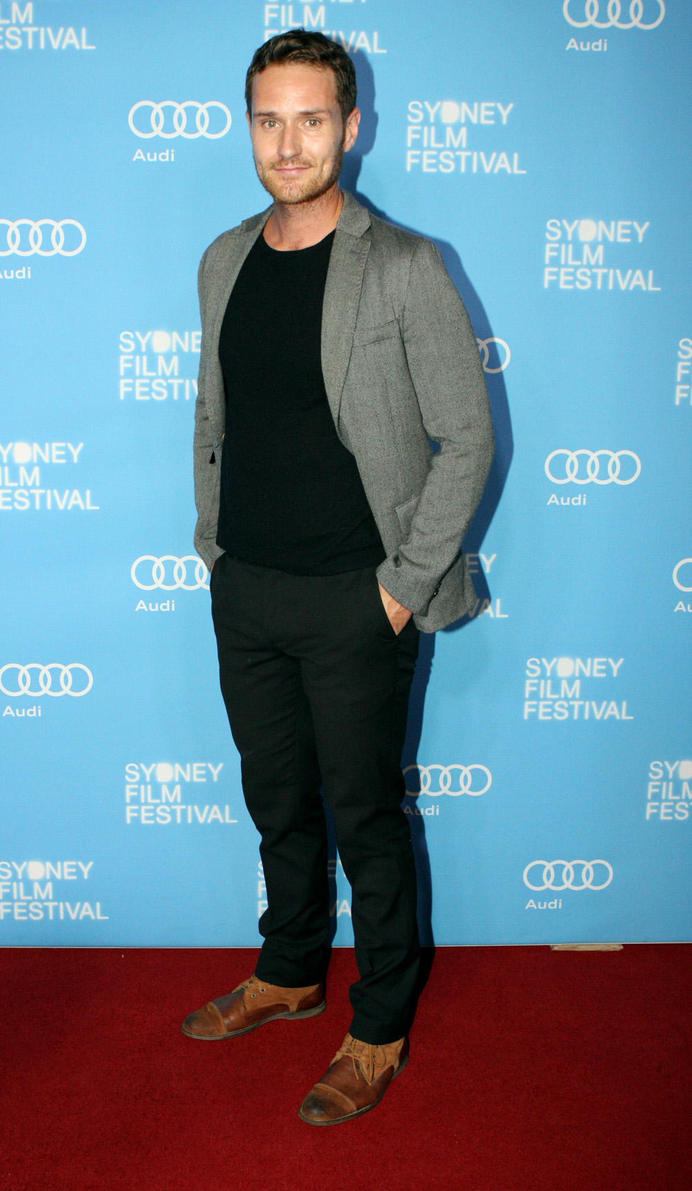 The Way Way Back Australian Movie Premiere - Toni Collette At State Theatre, Sydney, Australia - 6th June 2013